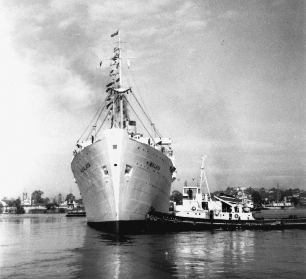 Himalaya (ship)